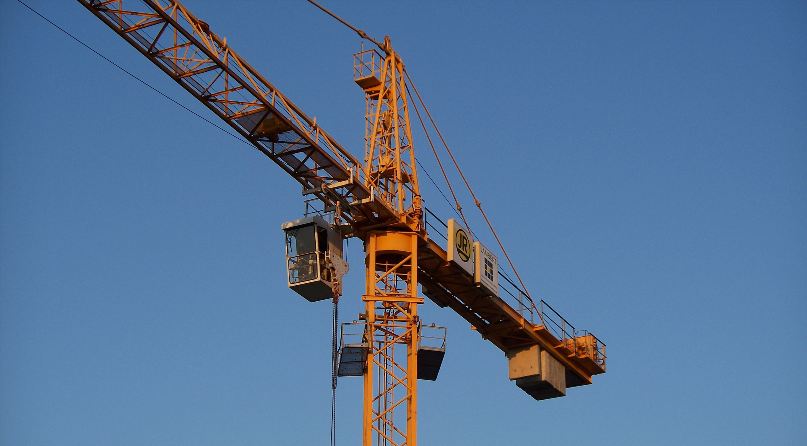 Tower crane in Germany.